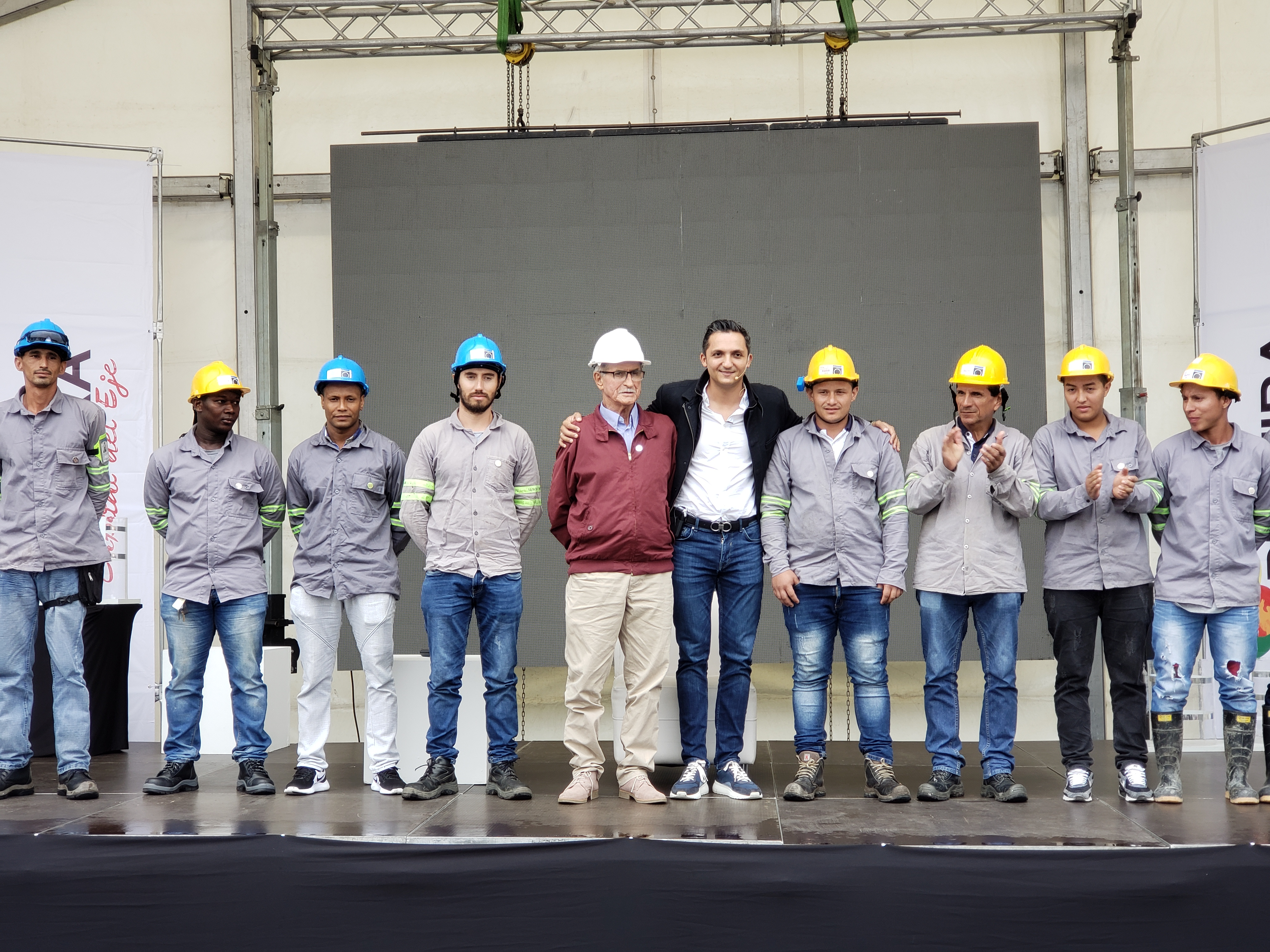 Juan Pablo Gallo y equipo del nuevo Egoyá inaugurando la obra